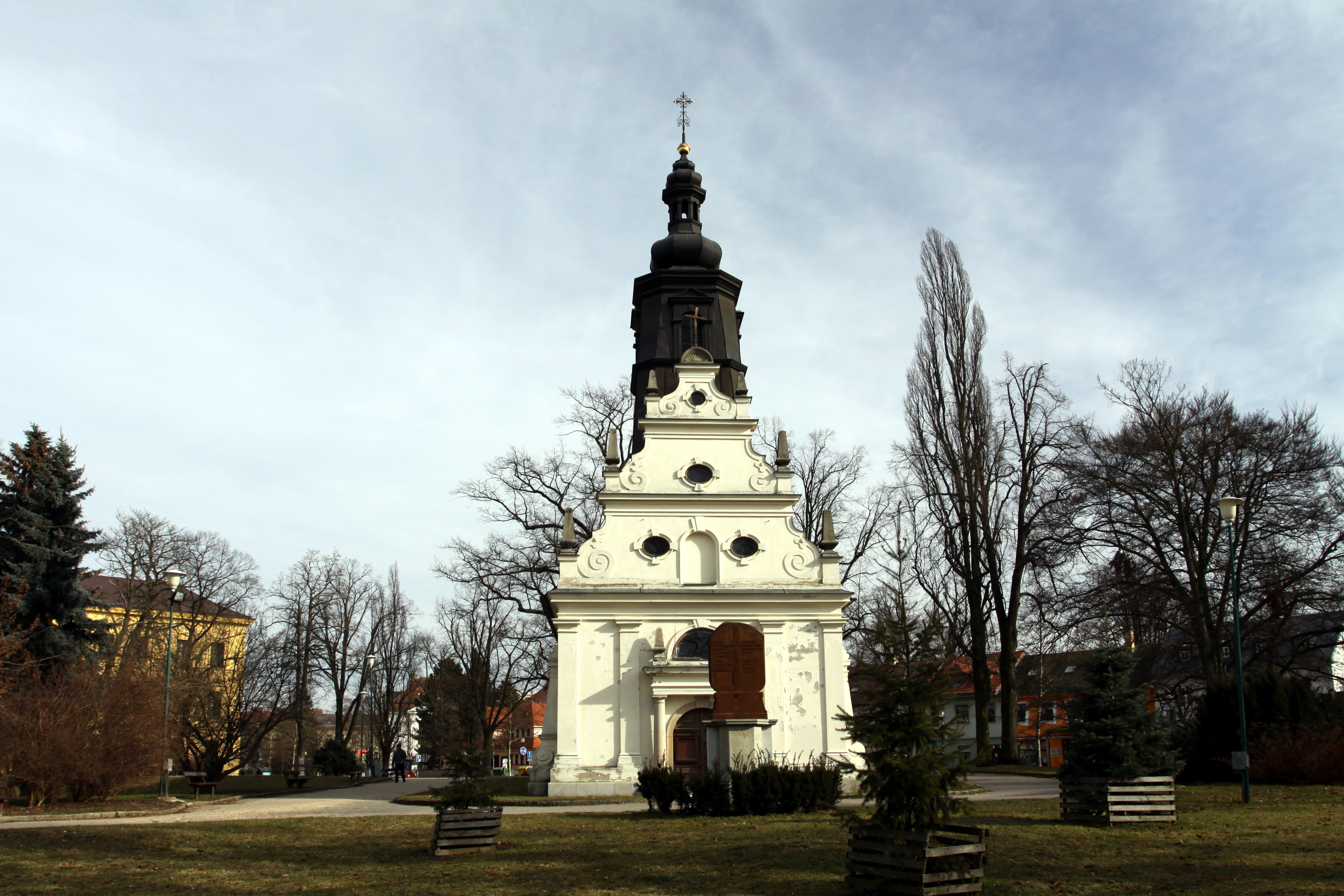 Church of the Holy Spirit in Jihlava, Jihlava District, Czech Republic